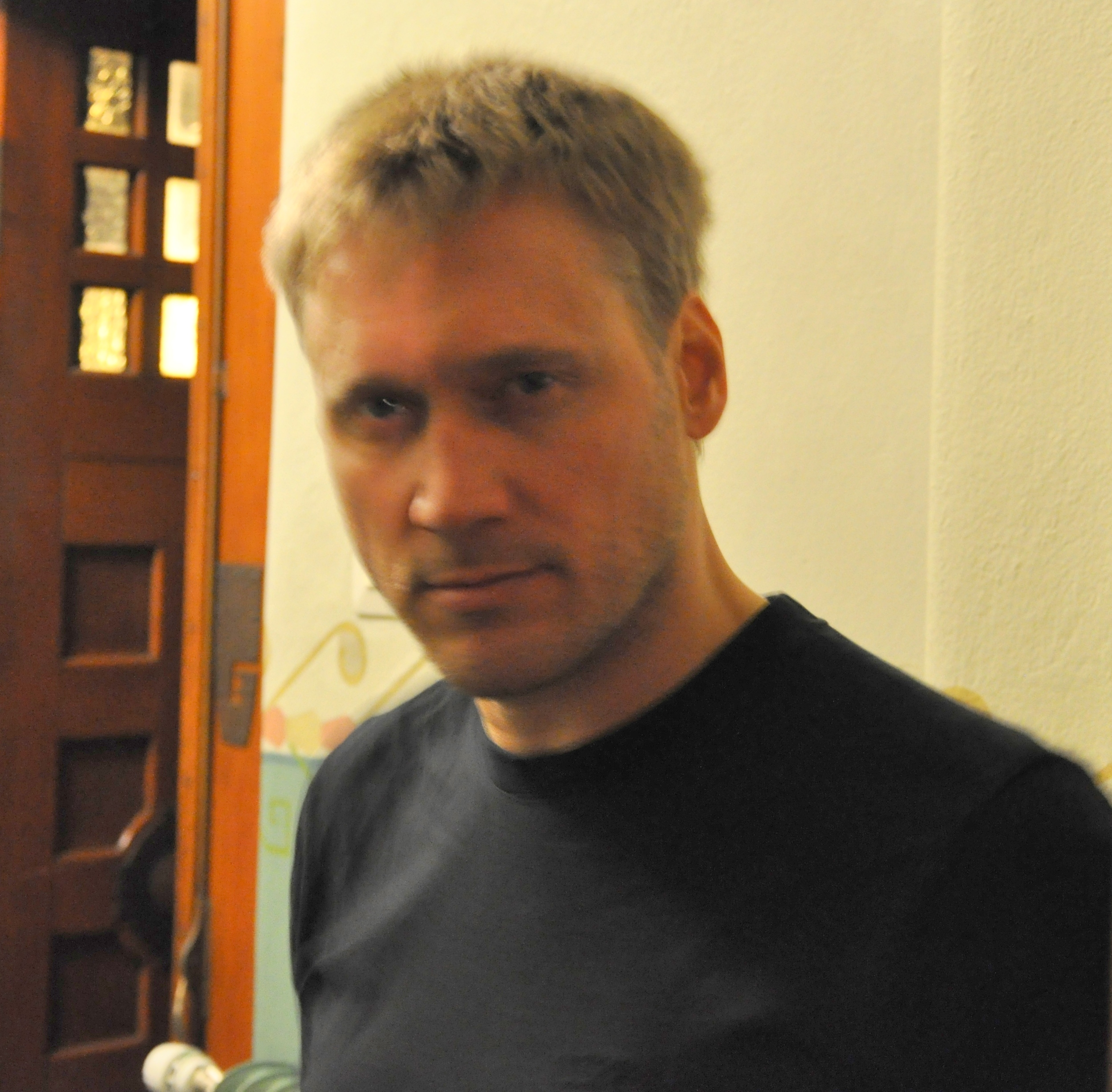 Finnish singer Samuli Edelmann after a concert at St Michael's Church, Turku, 2009.